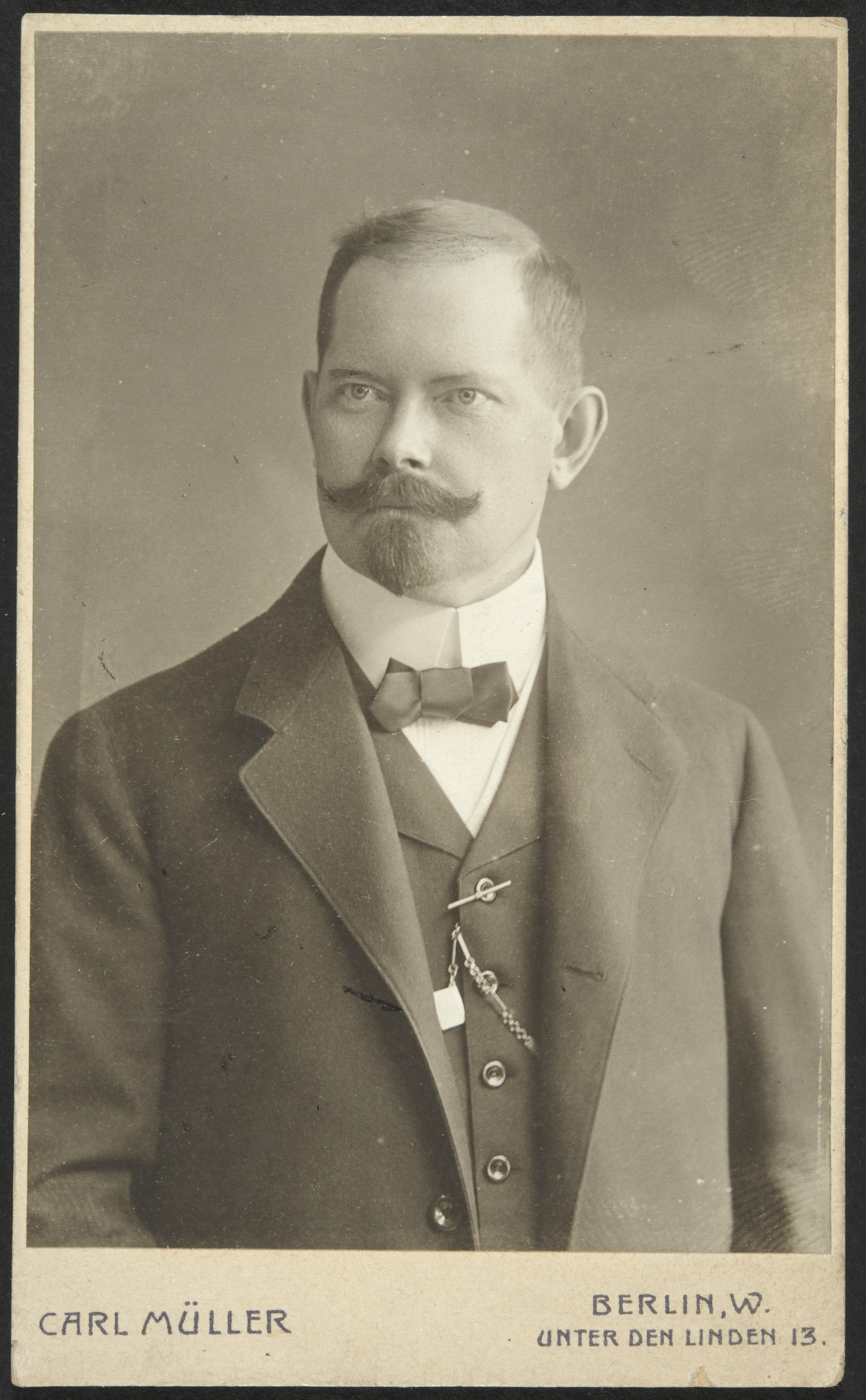 Photograph of the Finnish linguist Tor Karsten (1870–1942).